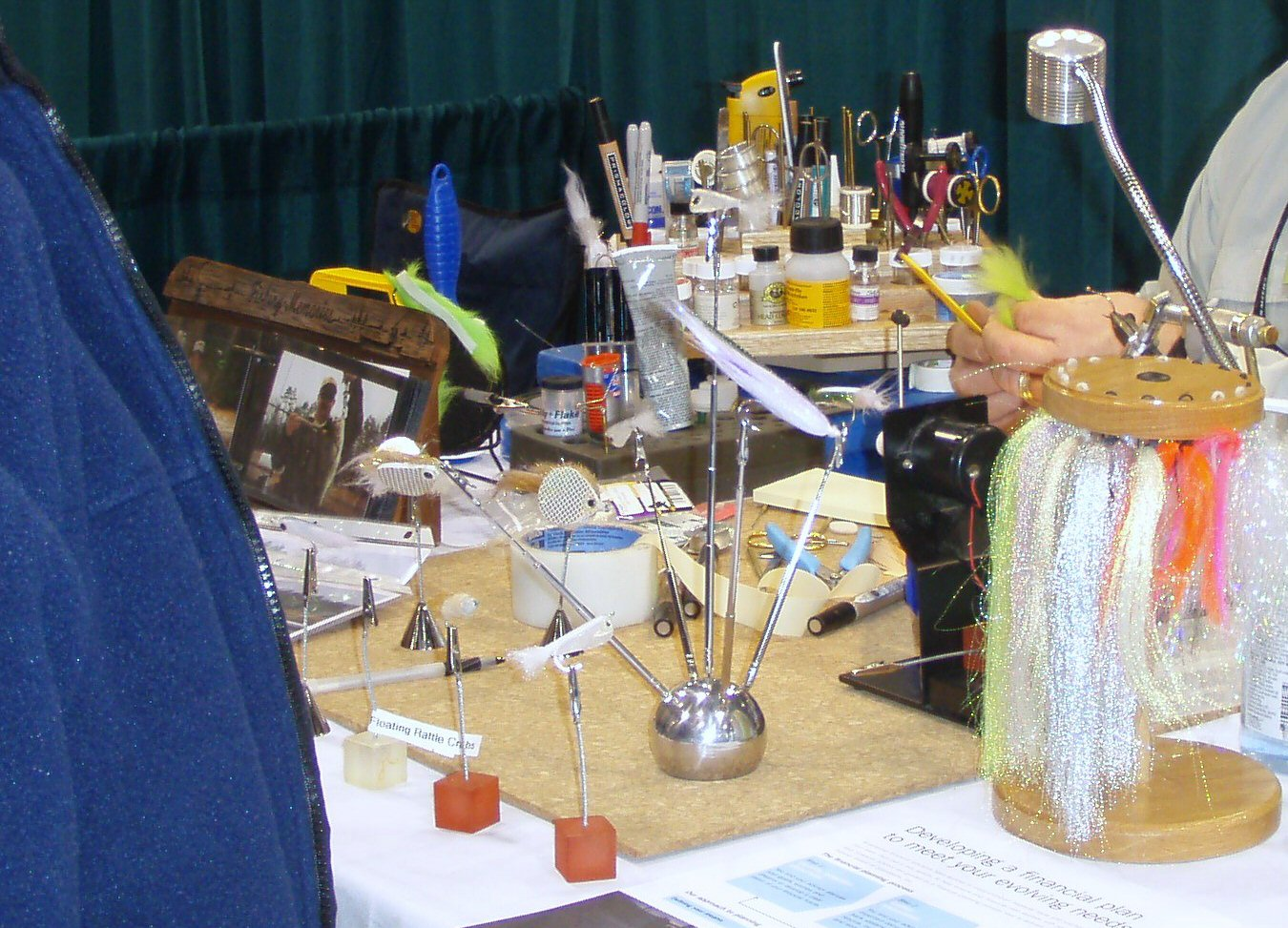 Fly Tying Demonstration At Atlanta Fly Fishing Show 2008